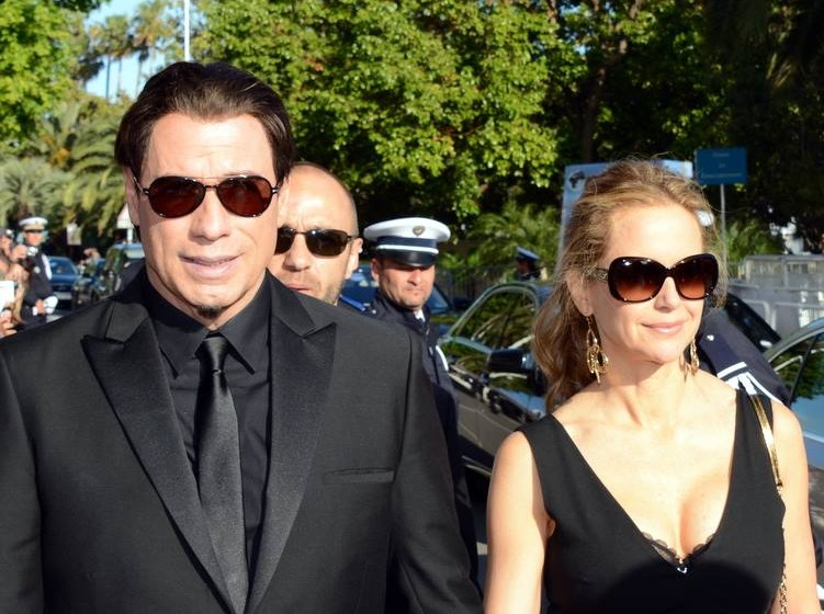 John Travolta and Kelly Preston at the Cannes film festival, for the 20th anniversary of "Pulp fiction"